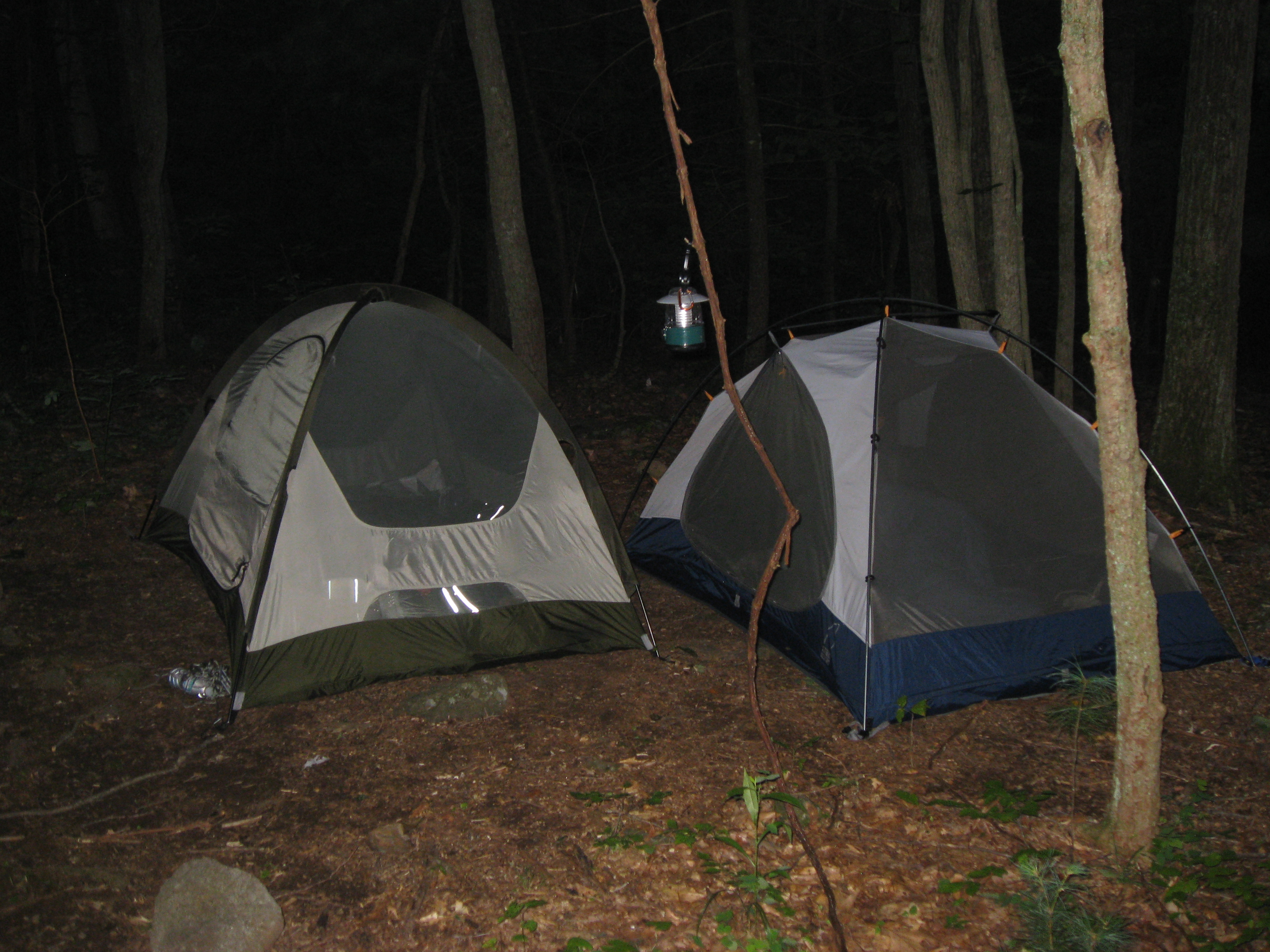 Two tents in a backcountry campground.